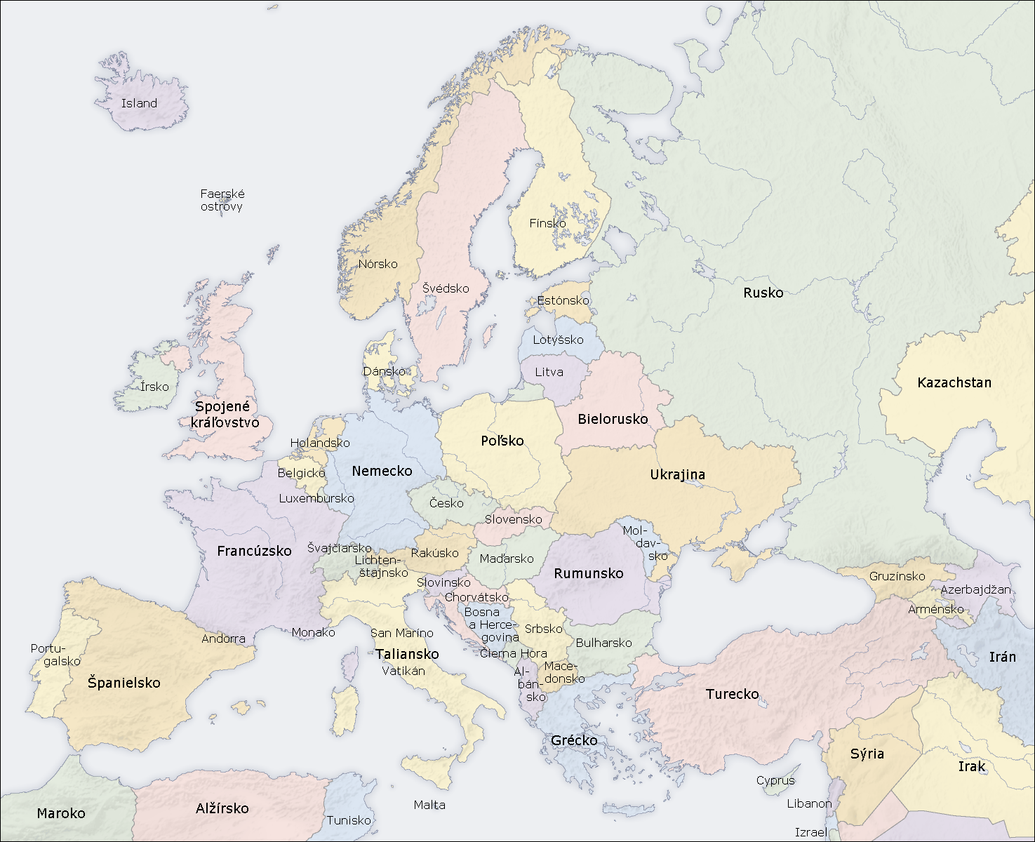 Map of countries in Europe